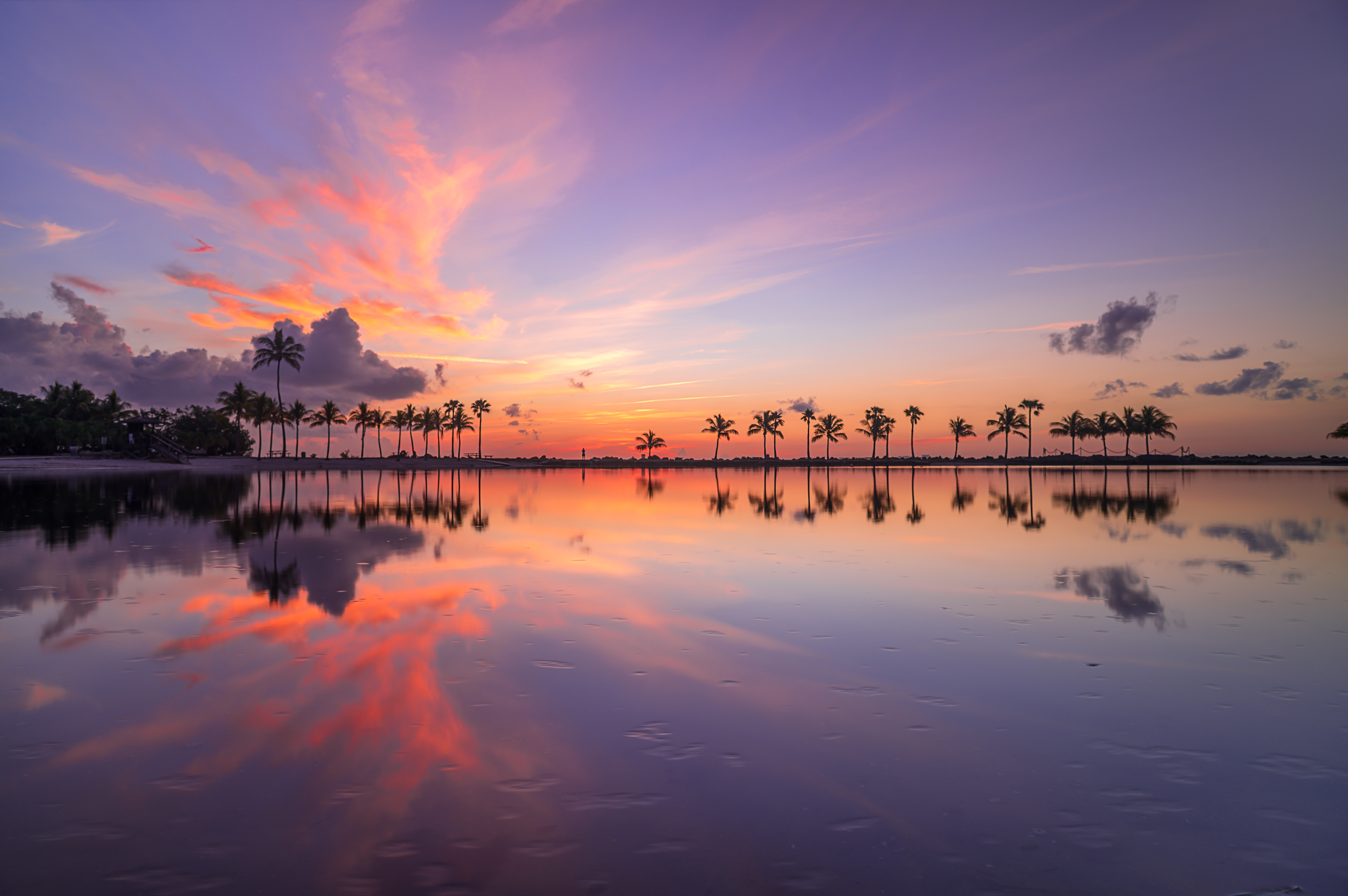 Sunrise at Matheson Hammock Park. Taken at Round Beach with the Miami Skyline faintly in the background.